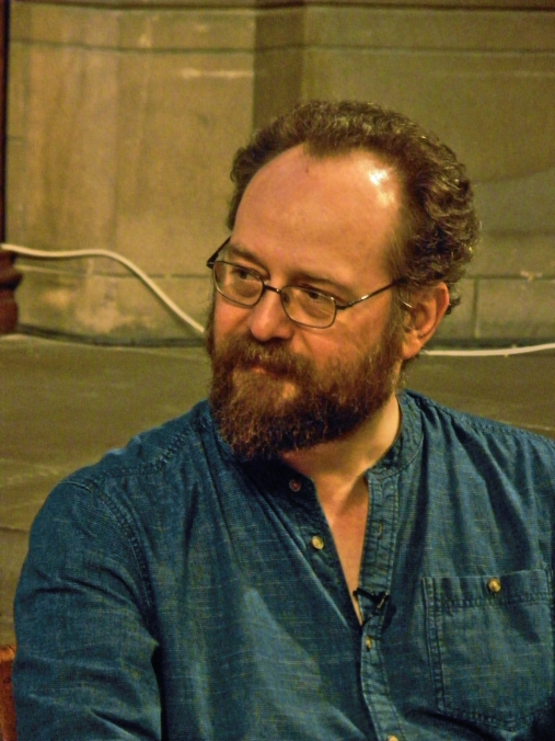 Crime writer Stuart MacBride at the University of Glasgow's Creative Conversations, January 2019 (born 27 February 1969)